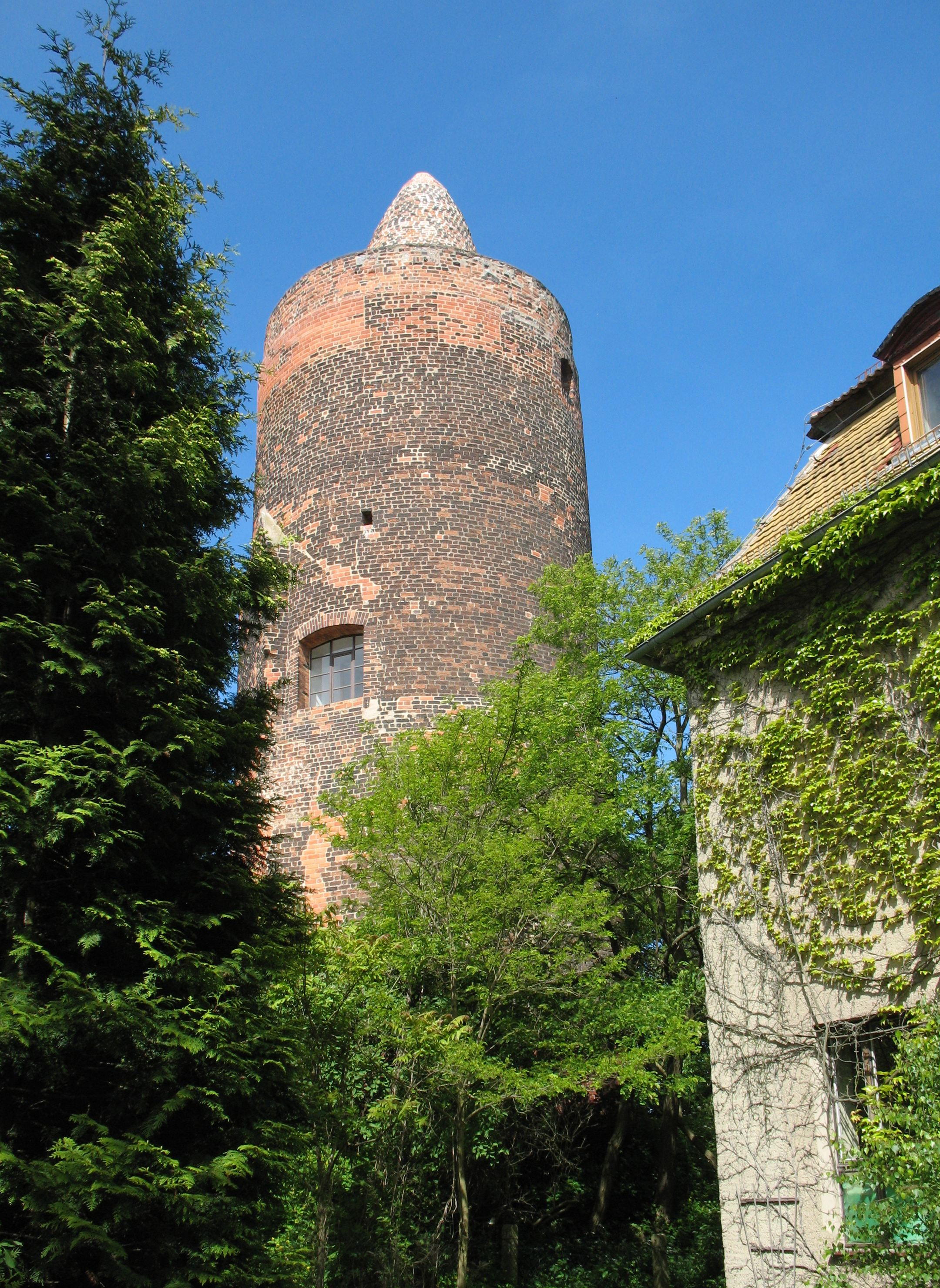 Red tower in Pouch (municipality Muldestausee) in Saxony-Anhalt, Germany